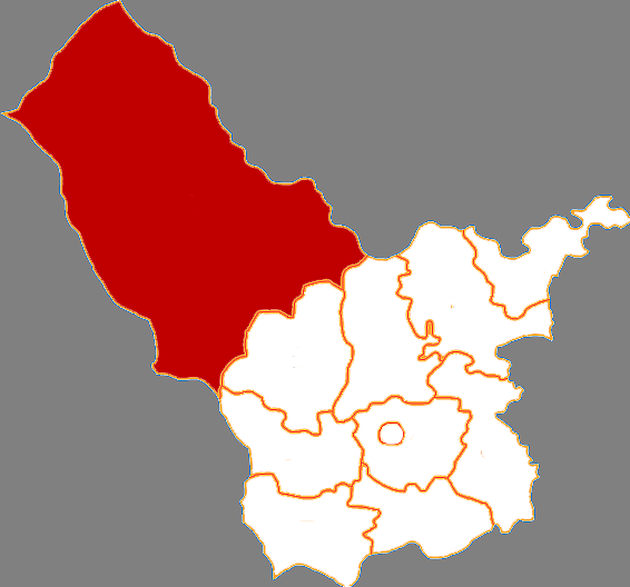 Locator map of Siziwang Banner in Ulanqab City, Inner Mongolia, China